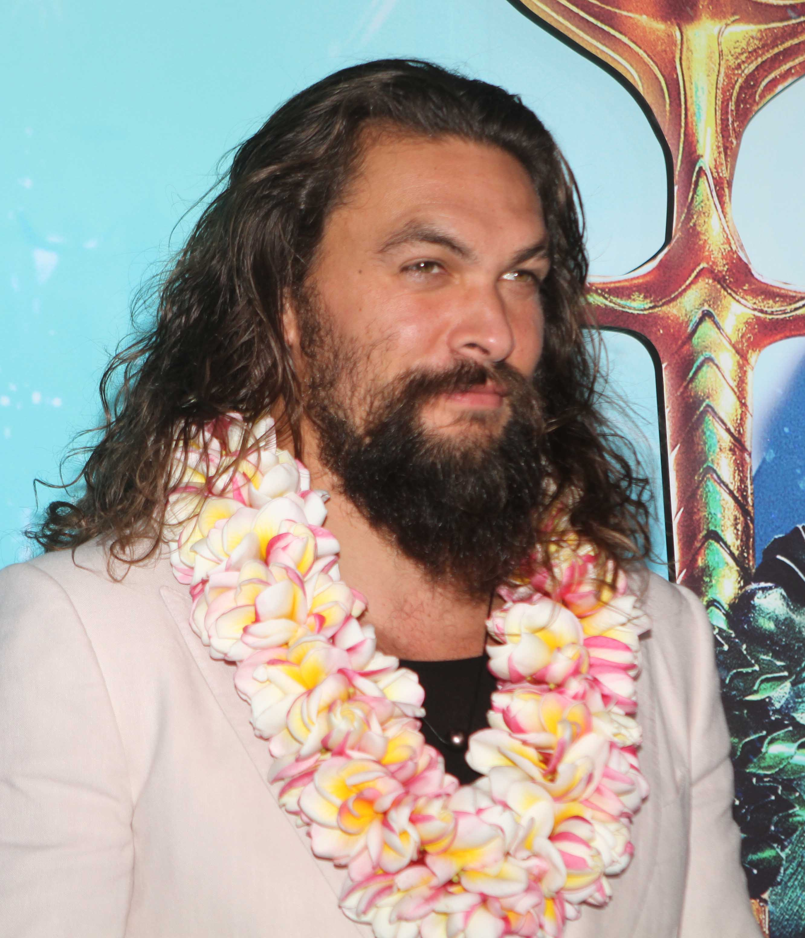 Jason Momoa Aquaman, Sydney, Australia, 19th Dec, 2018